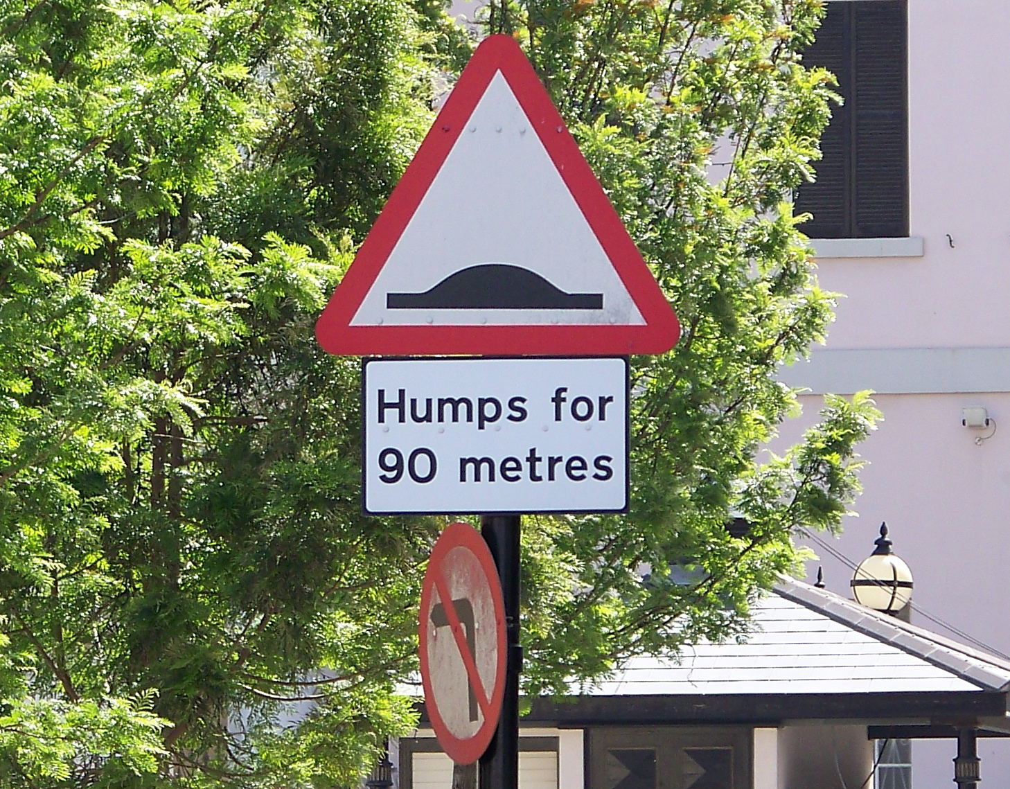 Hump traffic sign at John Mackintosh Square, Gibraltar.